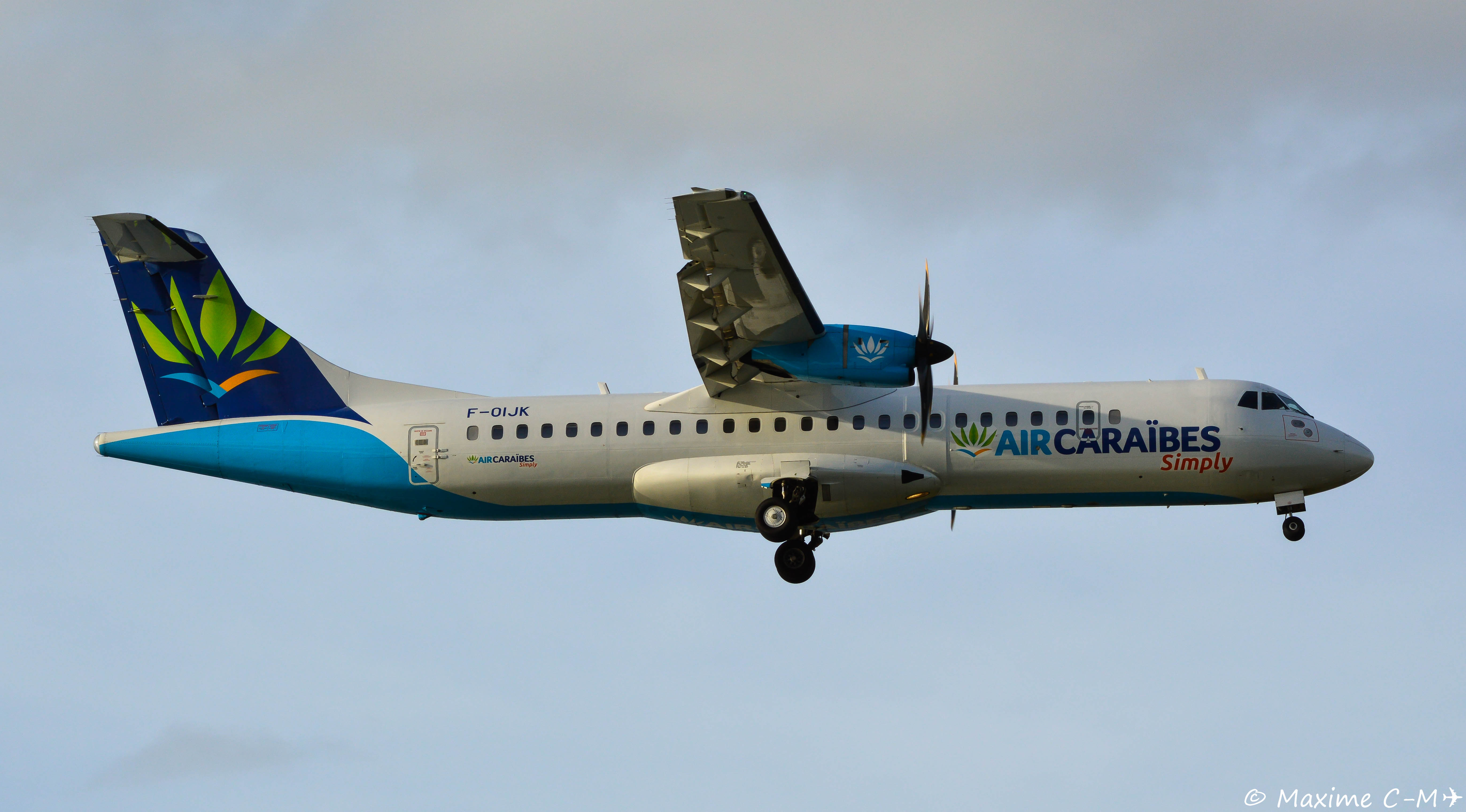 F-OIJK 🇫🇷 Air Caraïbes " Simply " 🇫🇷 ATR 72-500 TFFF / FDF 🇲🇶